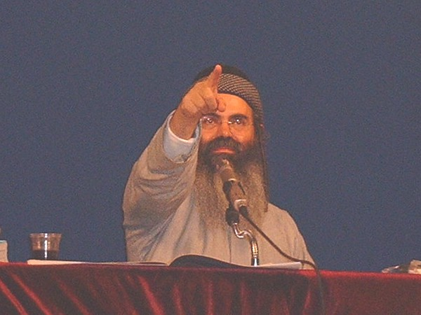 Yizthak Amnon